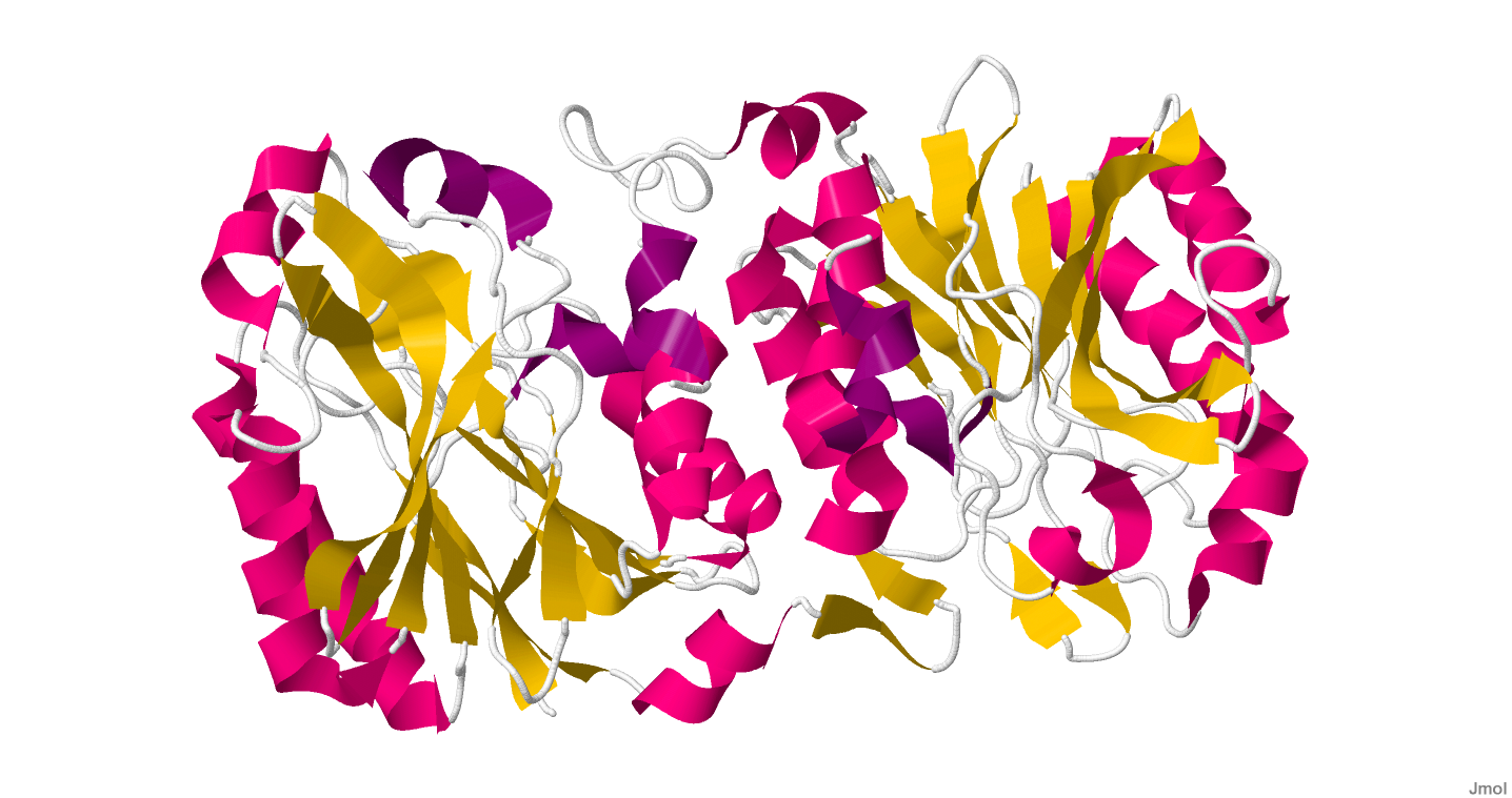 Structure of Nitrilase